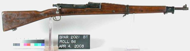 During World War II, Parris Manufacturing Company provided over 2 million accurate copies of the M1903 Springfield rifles, the U.S. Training Rifle Mk1 Navy to the U.S. armed forces. After the war they continued manufacture and sell their replicas as toy guns